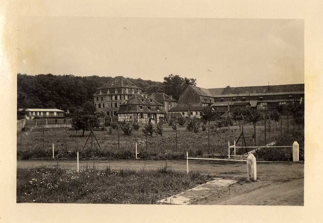 Photo courtesy of Petroleum Museum used with permission